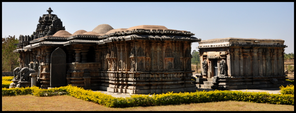 The South-East view of the temple. Also seen is an inscription slab containing old Kannada inscription (1173 A.D.) of Hoysala King Veera Ballala II. Source for dating of inscription:Epigraphia Carnatica: Inscriptions in the Hassan District By Benjamin Lewis Rice, Director of Archaeological Researches in Mysore, Vol 5 (Part 1), 1902, Mangalore, Bassel Mission Press, Chapters:Classified list of Inscriptions, no.71, pg XLV; Hassan Taluq, pg 43-44, ins no. 71